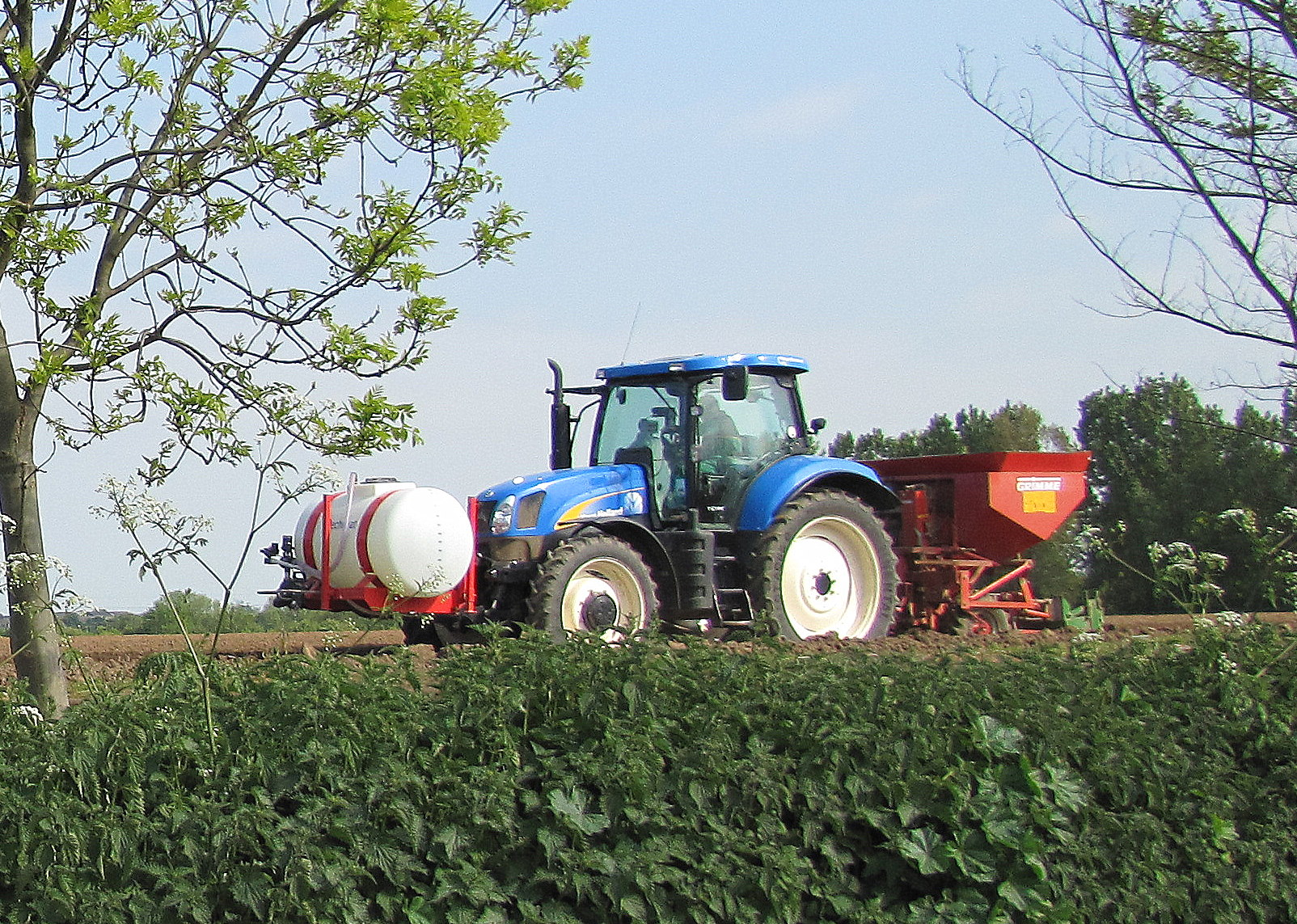 New Holland tractor in Essex, UK. planting of potatoes